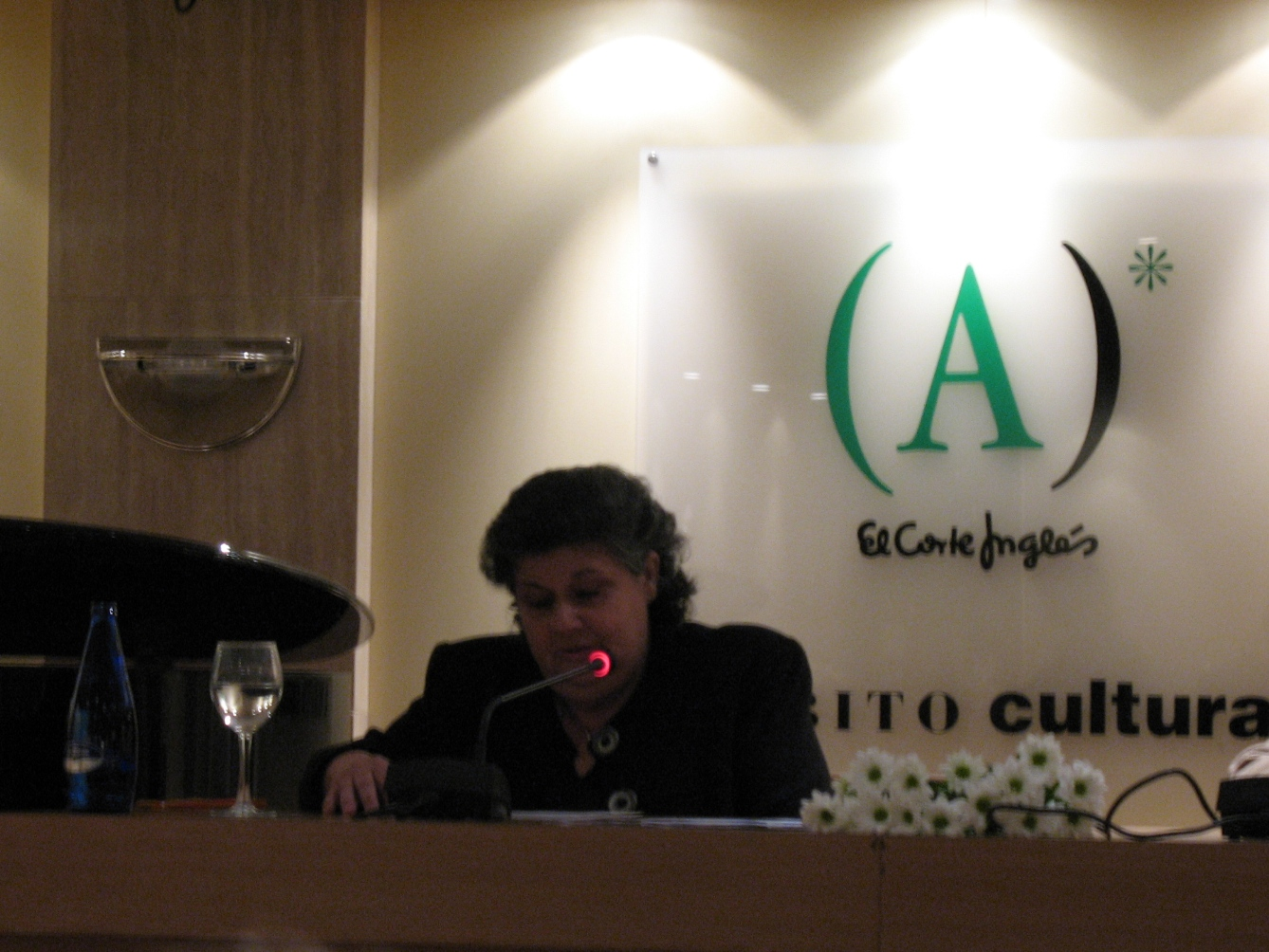 ebeltran